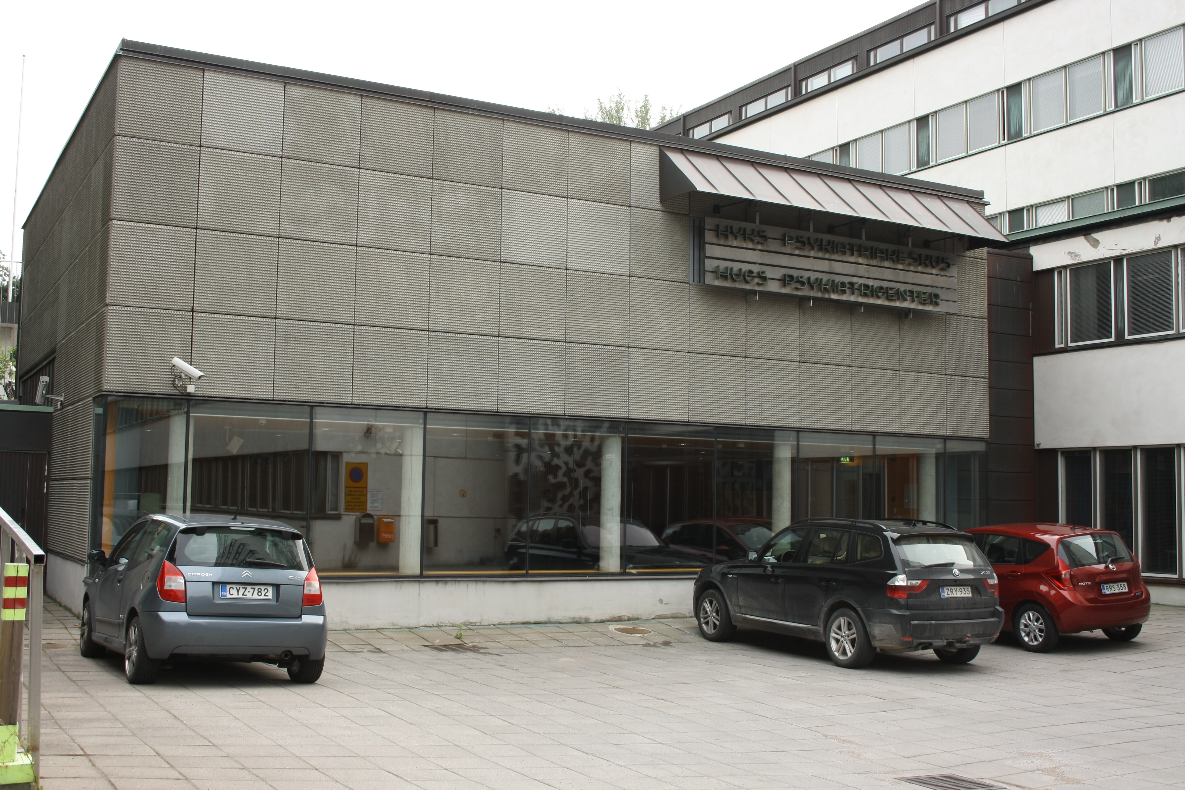 HUCH Psychiatrycenter in Helsinki